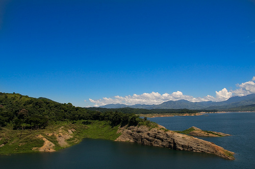 Pantabangan, Nueva Ecija[1] [2]Land Area: 392.56 km² ZIP Code: 3124 Coordinates: 15°49'22"N 121°9'22"E[3][4] Mayor Romeo V. Borja, Sr. V.Vice-Mayor,Romeo Jr R. Borja.[5] Pantabangan, Nueva Ecija Pantabangan, Nueva Ecija The serene blue-sky glimpses the 1.61 kilometer long dam enveloped by the picturesque view of Sierra Madre Mountains. The dam's clear water with an average yearly in the sanctuary of tropical marine life and an inviting site for jetskiing and fishing. Pantabangan offers not only its enormous man-made lake but also its guesthouse, the Best View Hotel and Restaurant. With its Spa and Beauty Cottage Salon, swimming pool, tennis courts and water sports amenities, the tourists and guest enjoy the luxury and beauty of the placid scenery of the dam. [6][7] [8]First Gen Hydro Power Corporation (FG Hydro) owns and operates the Pantabangan-Masiway Hydroelectric Complex (PMHEP). The Pantabangan and Masiway plants are cascading hydroelectric power plants located in Nueva Ecija. Commissioned in 1977 and 1981, respectively, the Pantabangan and Masiway plants are part of a multipurpose hydro complex that supplies irrigation water for the vast rice fields of Nueva Ecija.